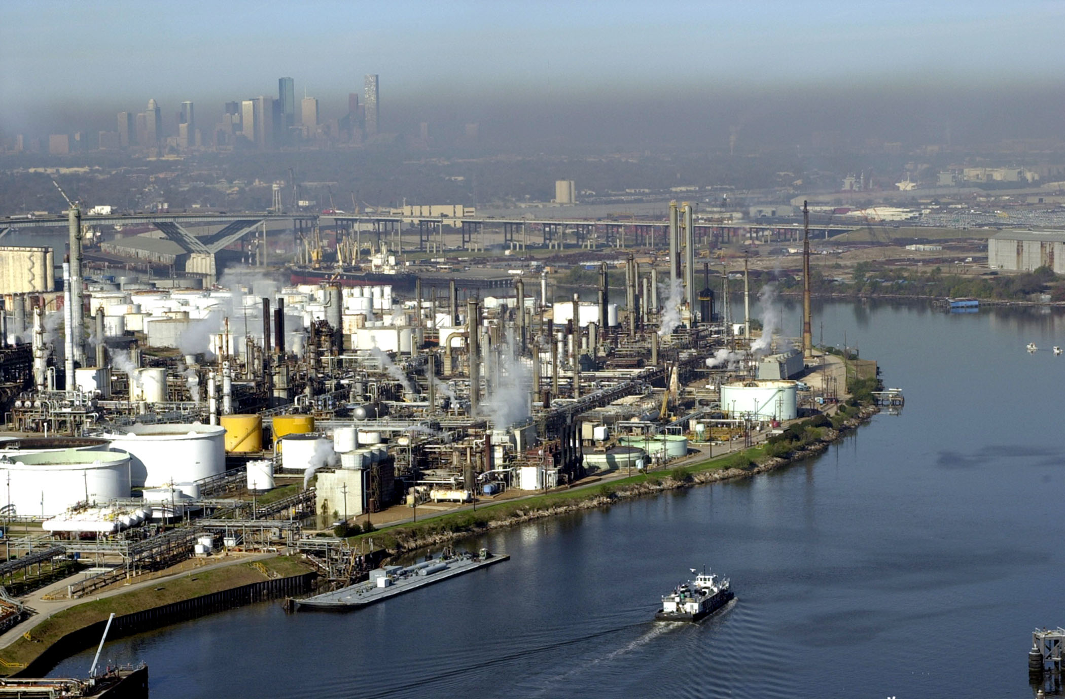 HOUSTON, Texas (Dec. 11)--The Port of Houston, the busiest in the nation in terms of foreign tonnage, is accessed by a 54-mile long ship channel. In an average day more than 700 vessel transit the channel. Here, a ship passes under the Fred Hartman bridge on the Houston ship channel, December 11. USCG photo by PA2 James Dillard